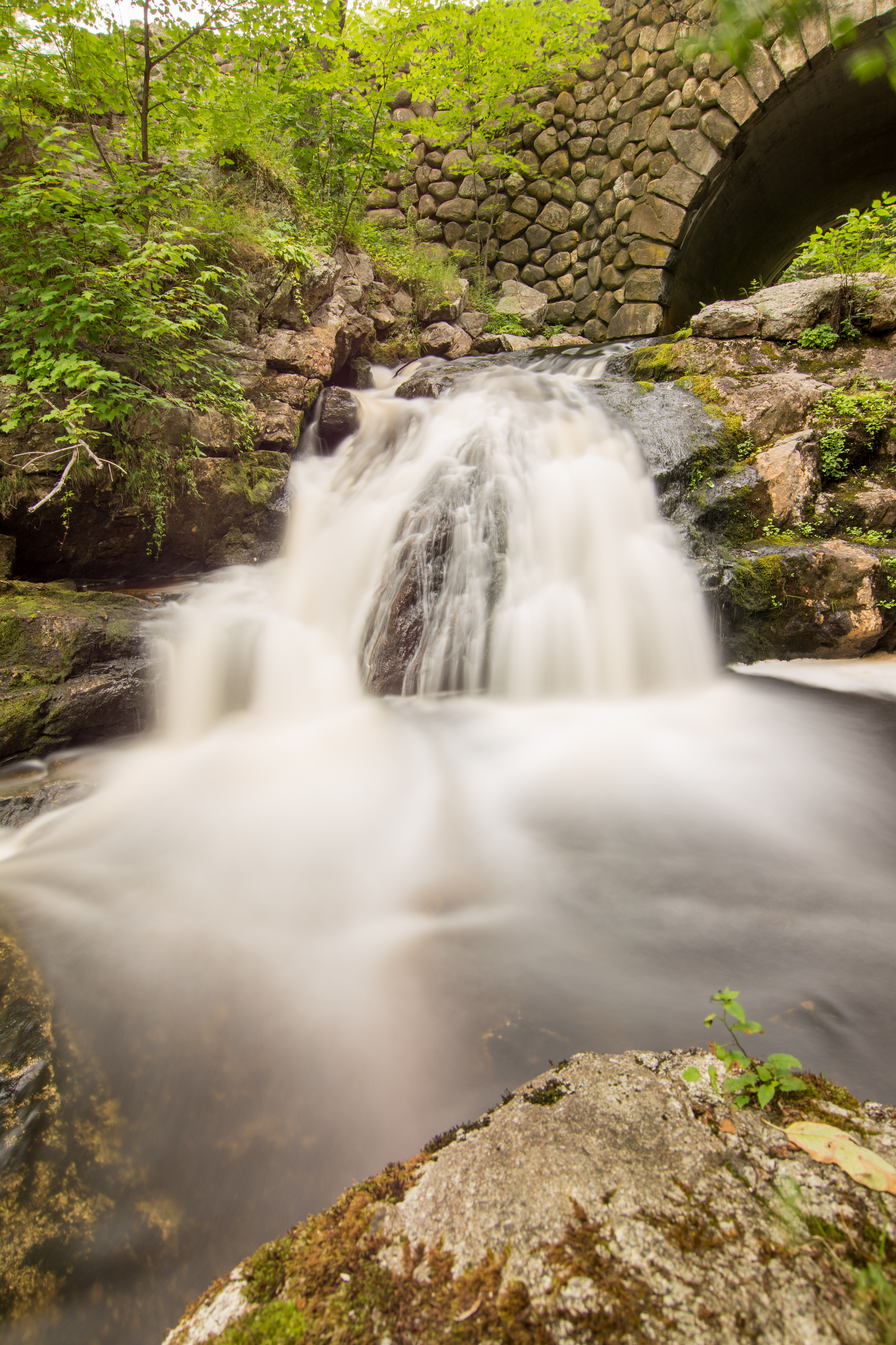 View of the upper falls part of Doane's Falls just below the bridge on Athol Road. Photo courtesy of David Wornham